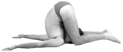 Halásana - Inverted position